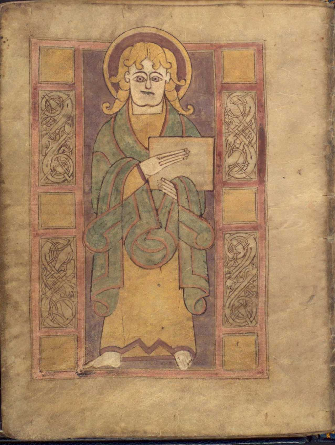 Gospel Book (British Library Add. MS. 40618) - compare John from the Book of Mulling